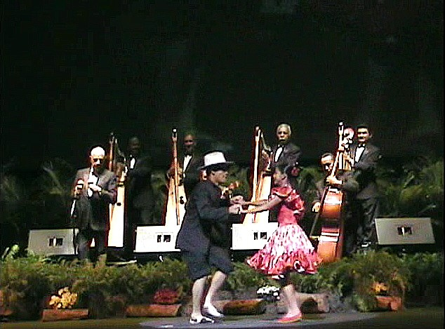 Typical venezuelan dance during a tribute to Juan Vicente Torrealba.